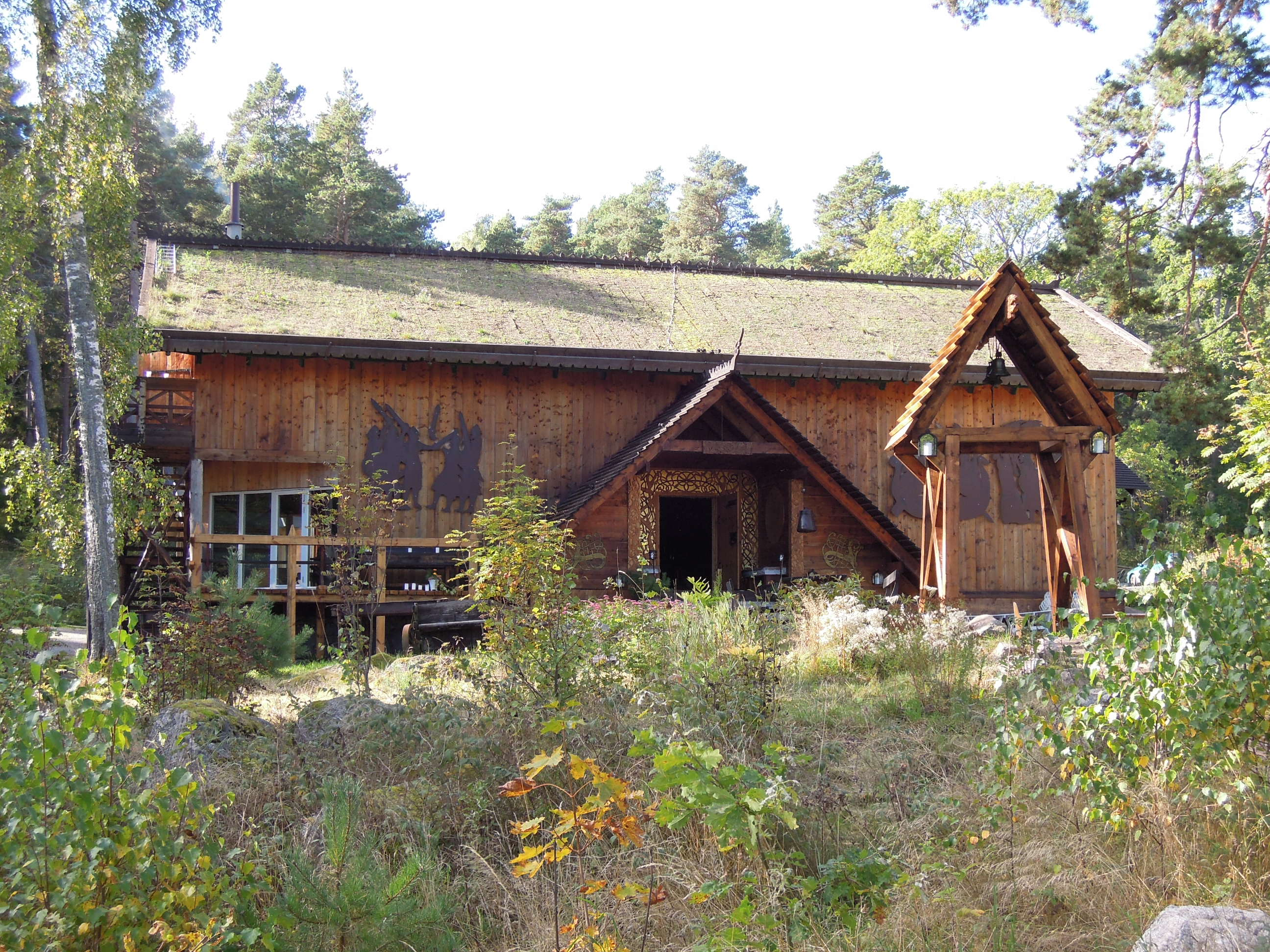 Longhouse of Viking type named Gudagott, used as a restaurant for booked parties of up to 150 persons. Cook-teaching is another alternative use. The building is part of the Viking village Frösåkers brygga outside Västerås, Sweden.